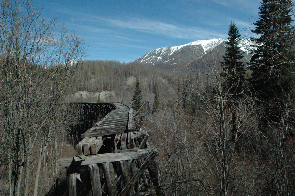 This old Copper River and Northwestern Railway bridge is along the McCarthy Road.